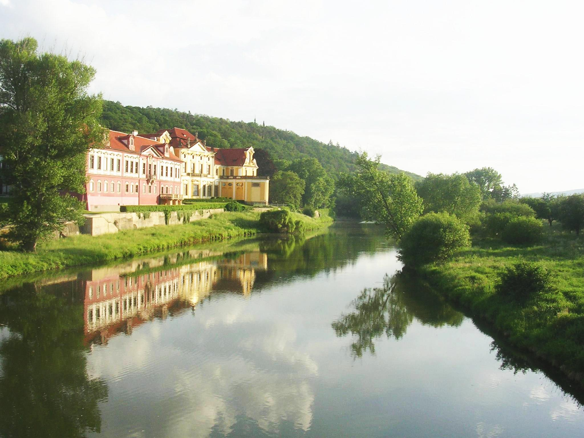 Zbraslav, Prague, the Czech Republic.